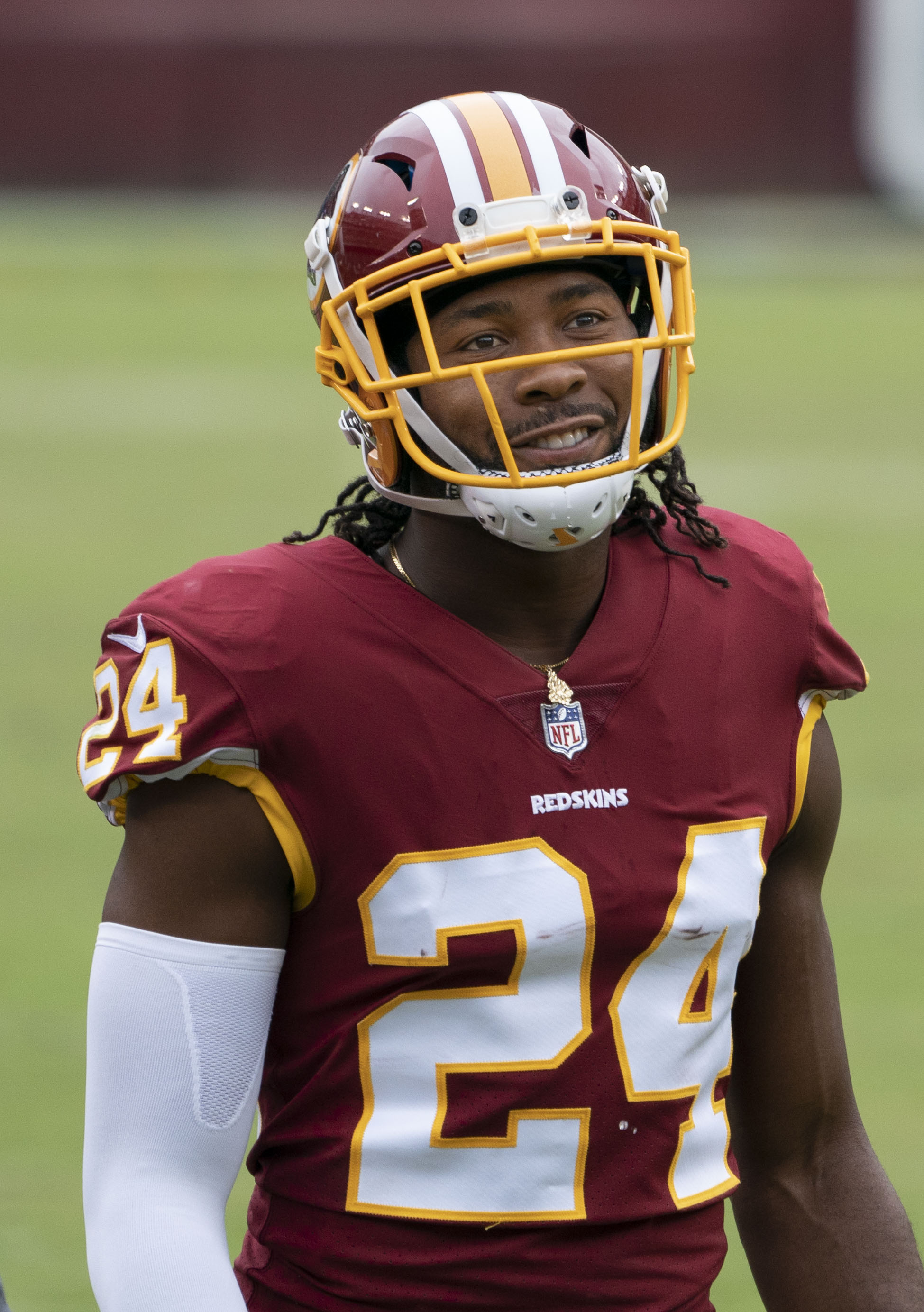 Washington Redskins cornerback, Josh Norman, in a game against the Carolina Panthers on October 14, 2018.